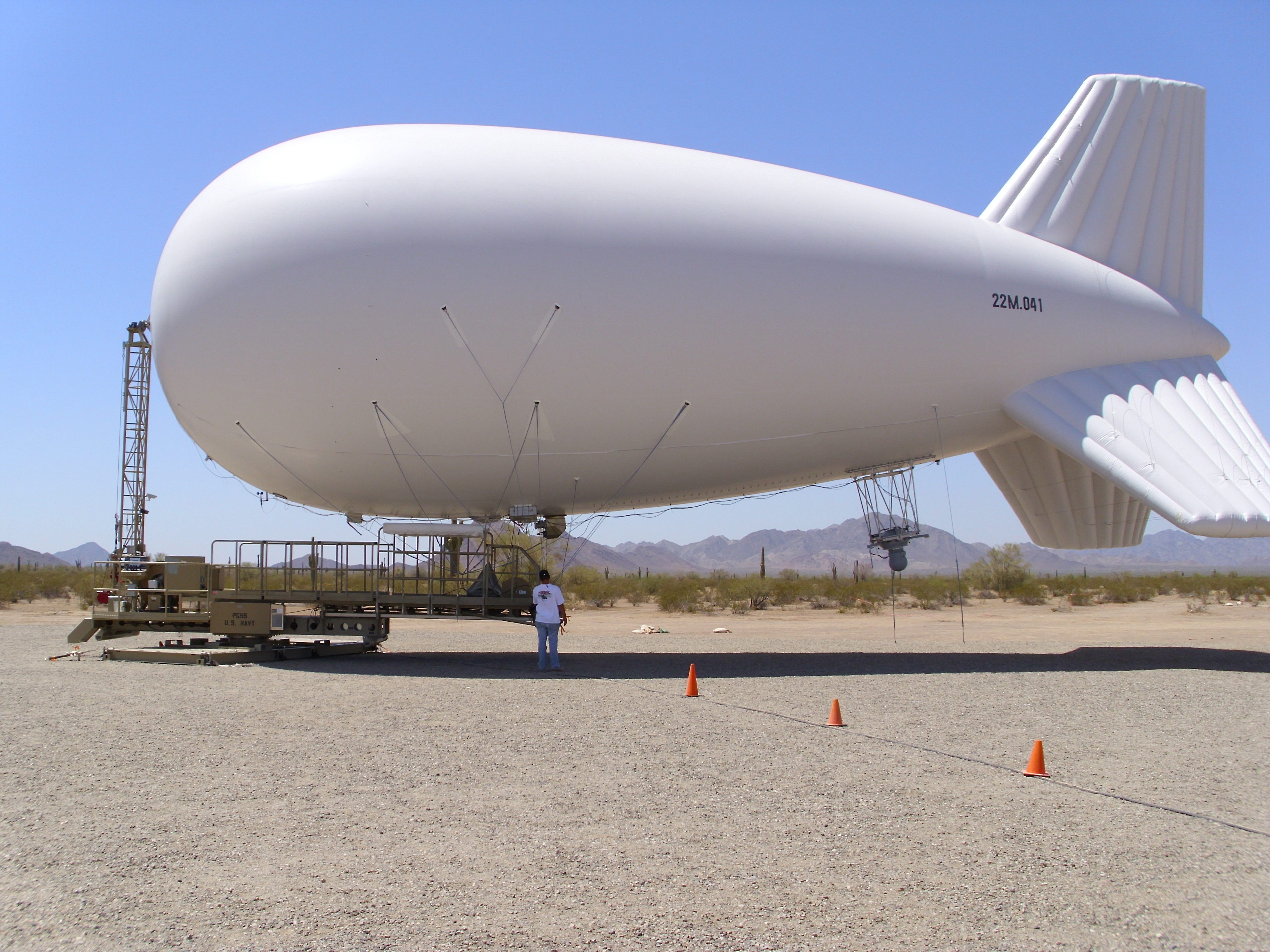 YUMA, Ariz. (May 25, 2011) A Persistent Ground Surveillance System (PGSS) aerostats undergoes pre-deployment testing at a U.S. Naval Air Systems Command (NAVAIR) training facility. Developed by NAVAIR's special surveillance program (SSP), the PGSS deploys in theater with reserve component and contractor personnel to provide force protection for forward operating bases in the U.S. Central Command area of responsibility. SSP created a working PGSS demonstration in less than 60 days, and first went operational in April 2010. (U.S. Navy photo/Released)